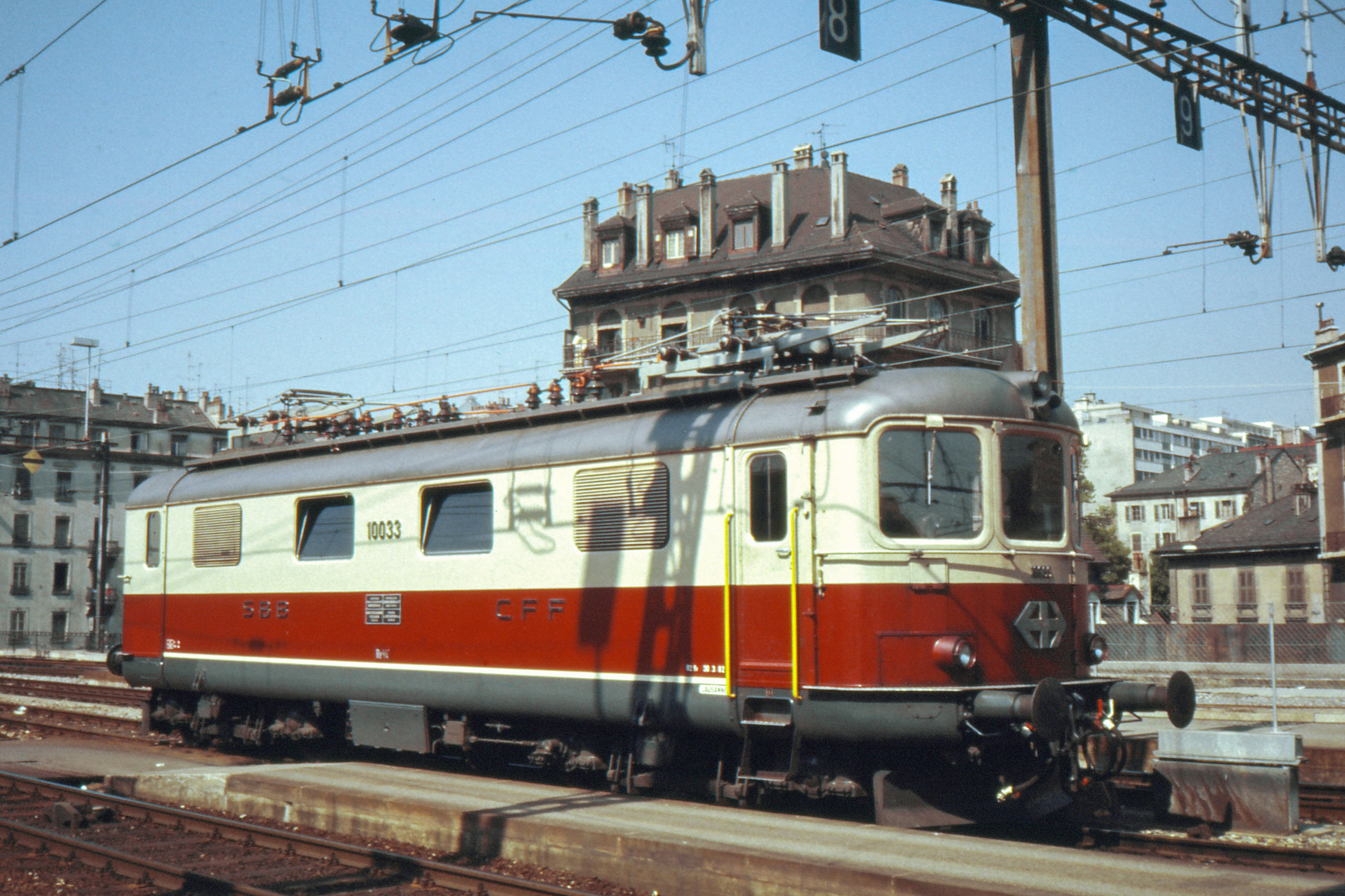 Swiss Rail Re4/4 I TEE 10033 Machine for the Reingoldexpress